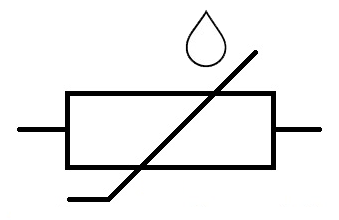 humistor international symbol